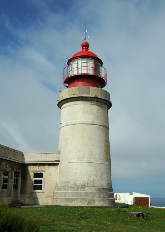 Ponta de Albernaz or Albarnaz Lighthouse